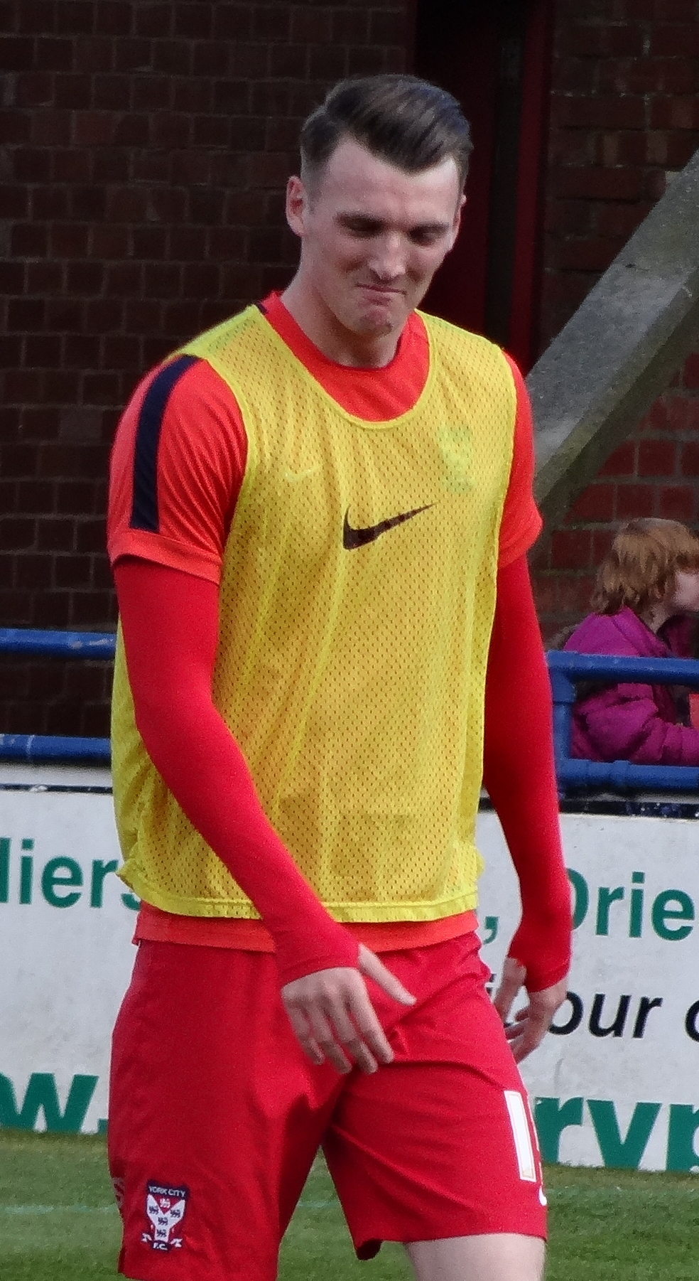 Kyle Cameron training with York City before their match against Bristol Rovers at Bootham Crescent, York on 30 April 2016